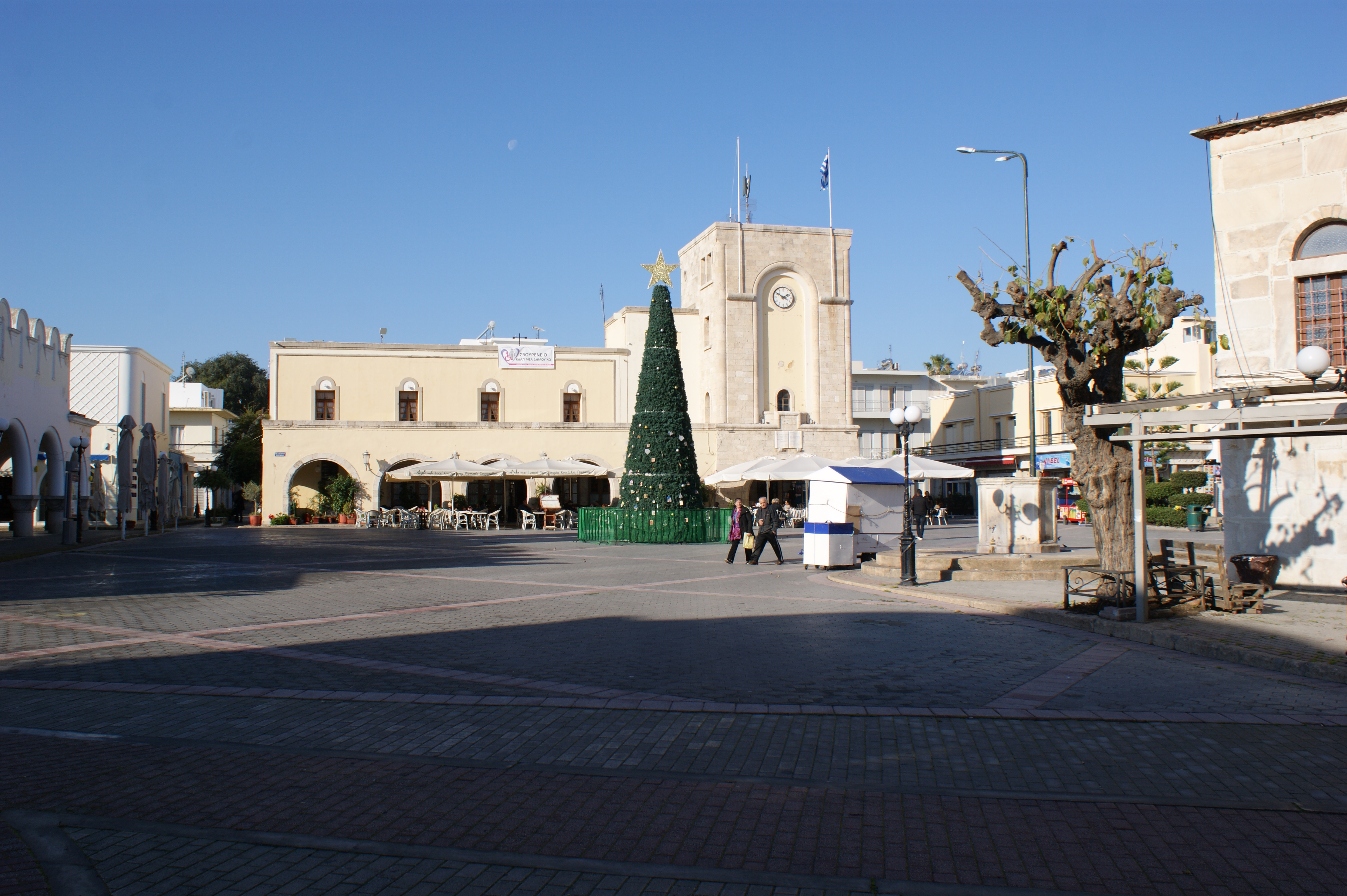 Eleftherias Square (also in Greek: Πλατεία Ελευθερίας, Platía Eleftherías, Turkish: Hürriyet Meydanı, Liberty Square) in the city of Kos on the Greek island of Kos. In the back of the picture, the former house of the (Italian) fascists (Casa del Fascio).